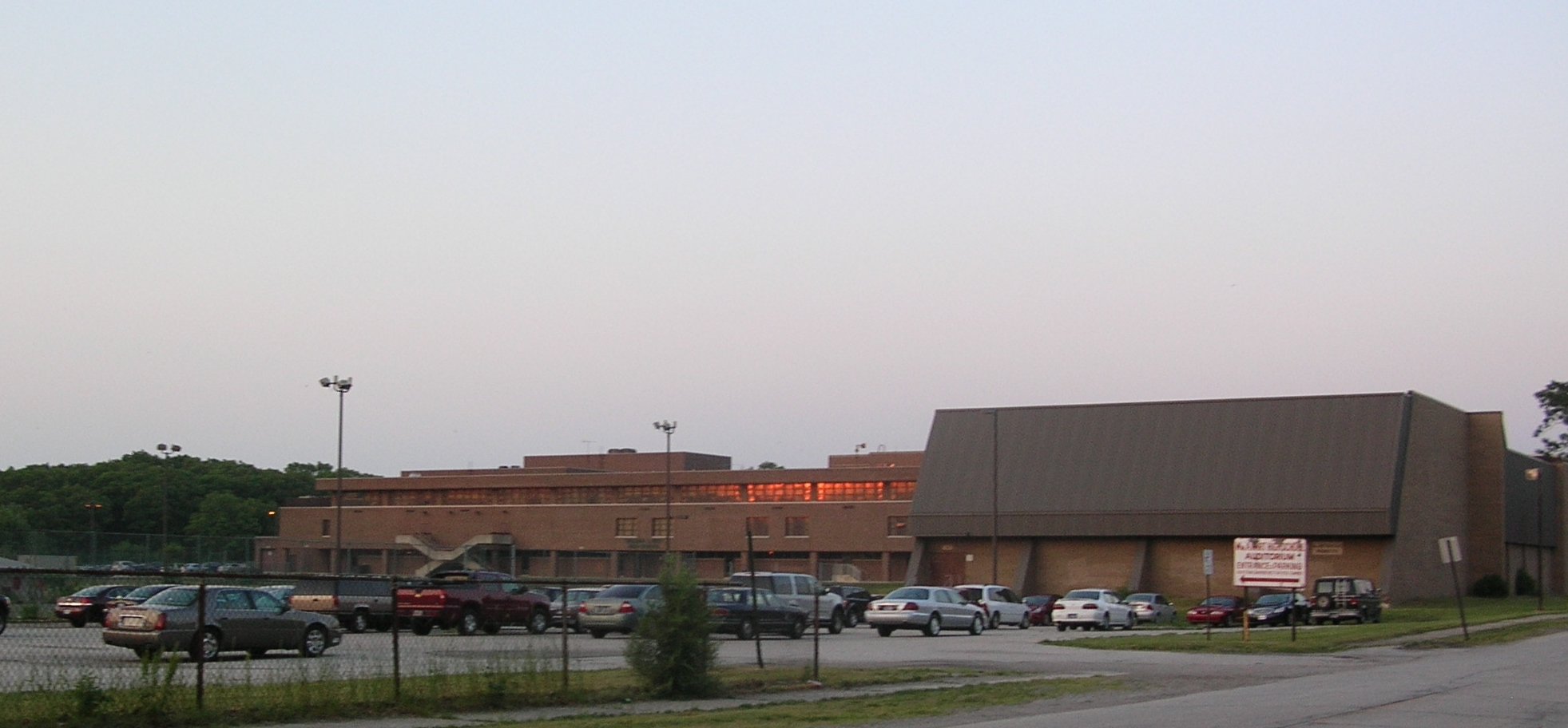 Rear view of Wirt High School, now the site of the Wirt Emerson VPA Academy, in the Miller Beach neighborhood of Gary, Indiana. Taken from Birch Street looking northeast.